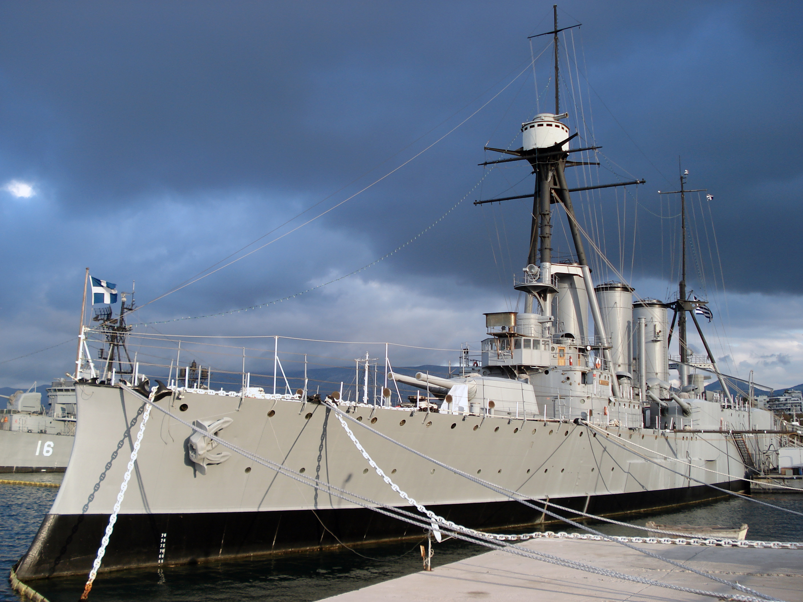 The Greek cruiser Georgios Averoff